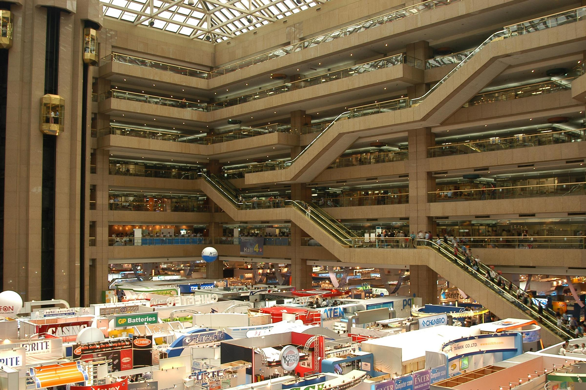 2004 Computex Taipei in Taipei World Trade Center. Bân-lâm-gú: 2004-nî tī Tâi-pak Sè-kài Bōo-i̍k Tiong-sim ê Tâi-pak kok-tsè tiān-náu-tián.